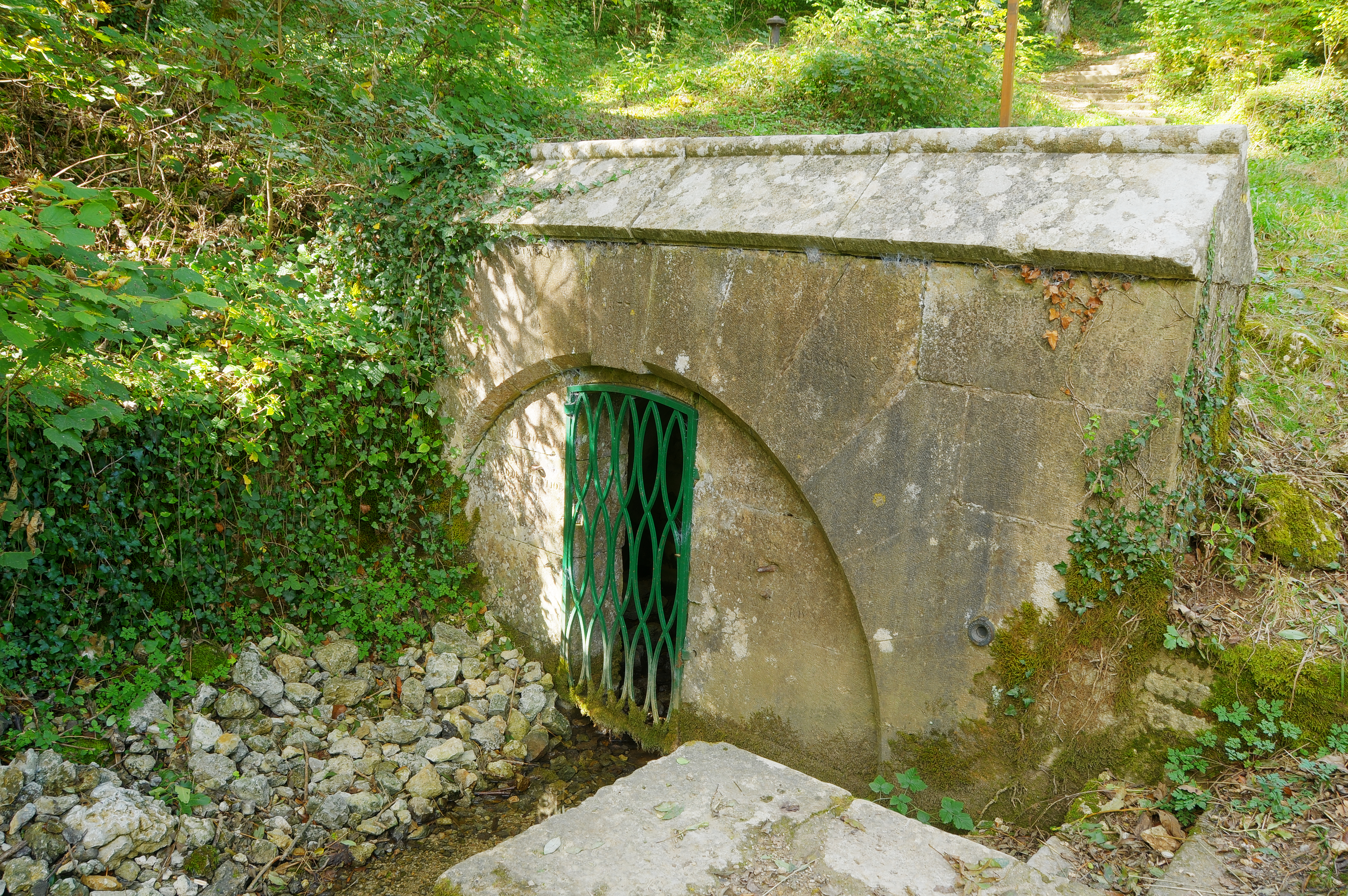 This photograph was taken with a Nikon D300 Source de la Marne (HDR).